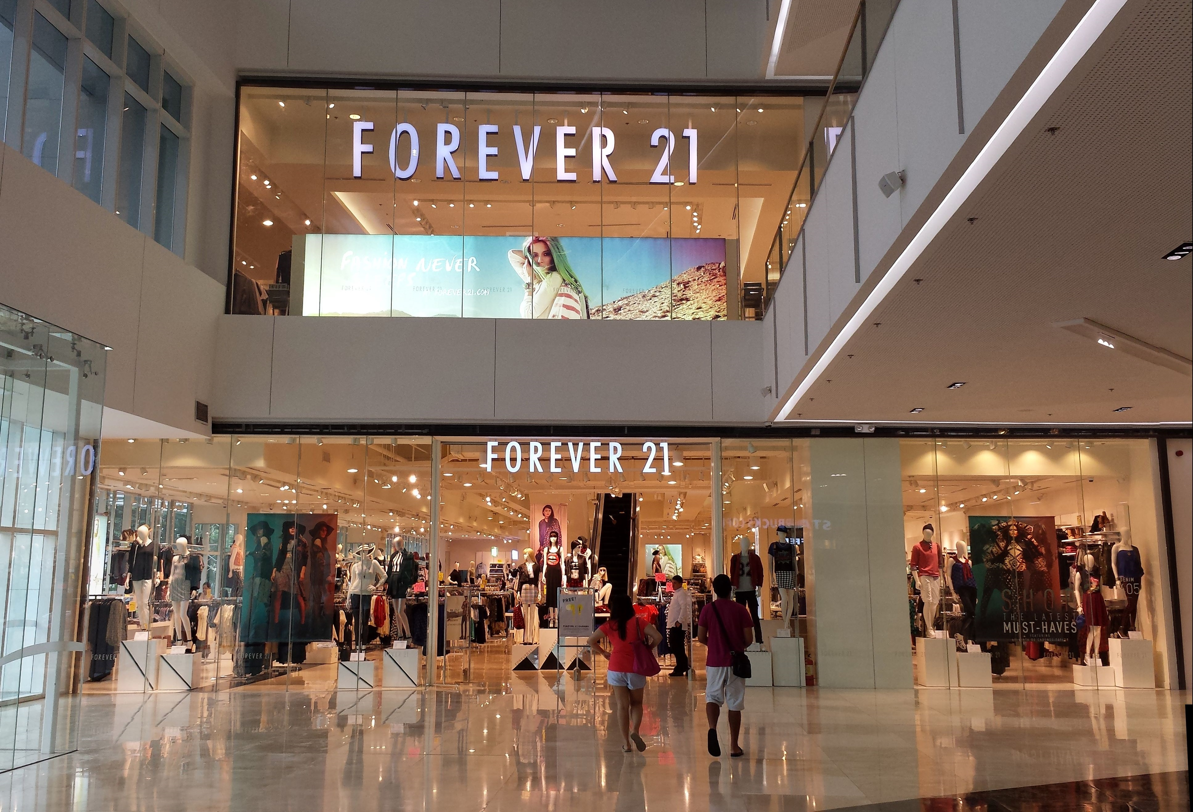 A 'Forever 21' store in the SM Aura Premier mall in Bonifacio Global City, Metro Manila, Philippines.